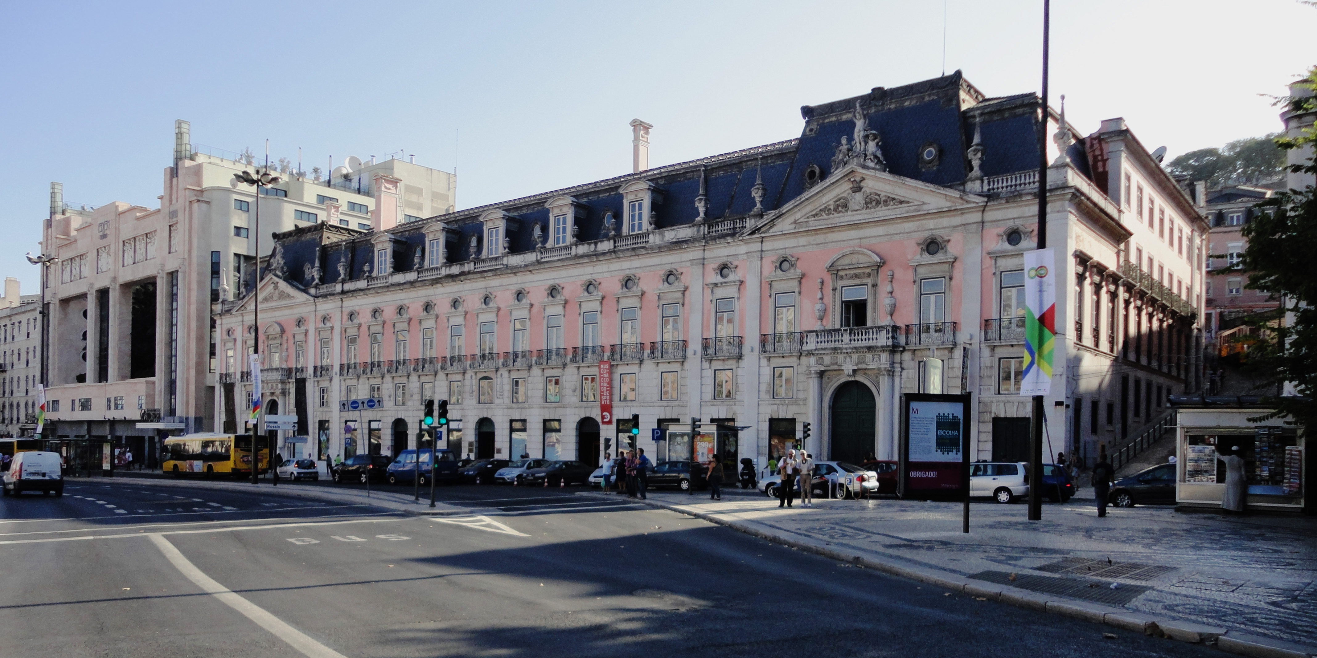 Palácio Foz, Lisbon, September 2012